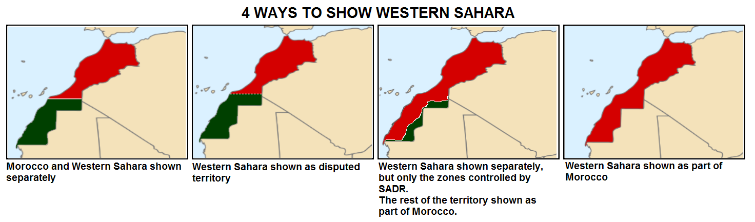 How Western Sahara is shown in maps